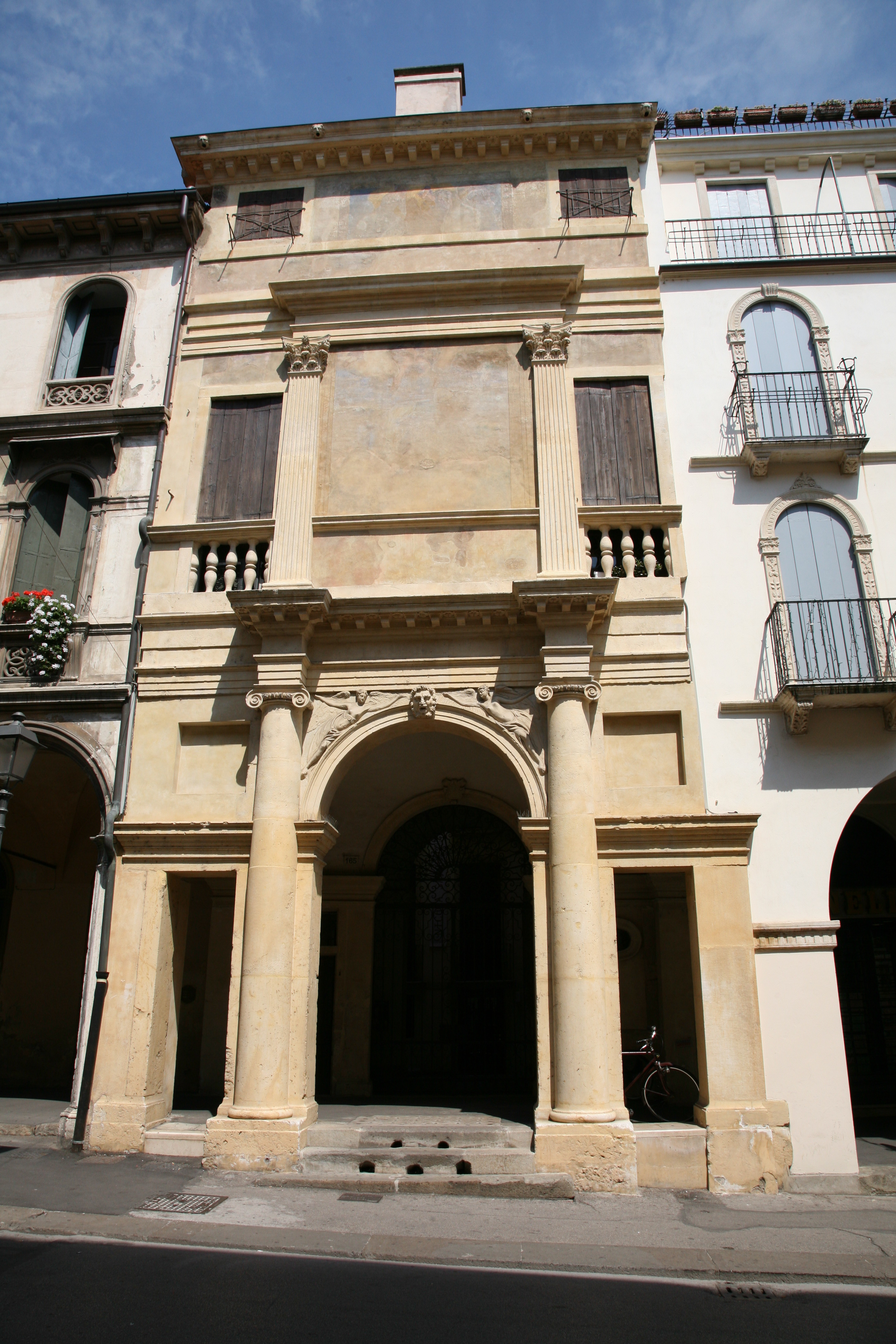 Casa Cogollo, sometimes called casa del Palladio, is a small palace in Vicenza attributed to Andrea Palladio (design, not execution). The actual colour of the facade was made after the 2003 restoration.